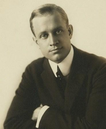 American stage & film actor Charles Trowbridge - original image (see source) cropped